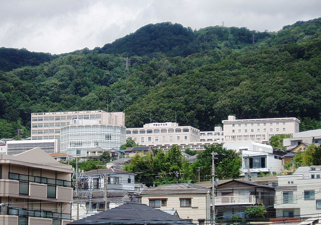 Konan Women's University viewed from Kōnan-Yamate Station, located in Higashinada-ku, Kobe, Hyogo, Japan.